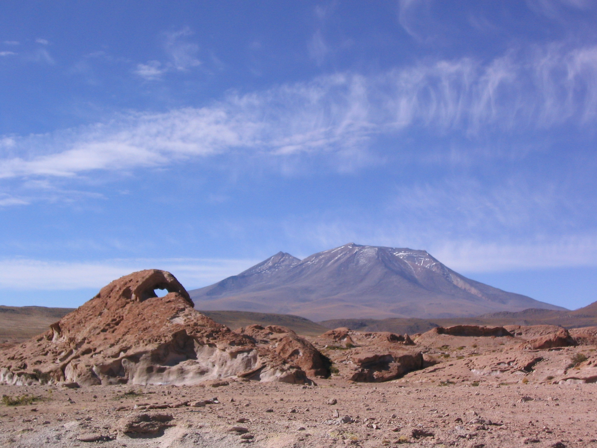 Live volcano, South of Salar de Uyuni, Southern Bolivia